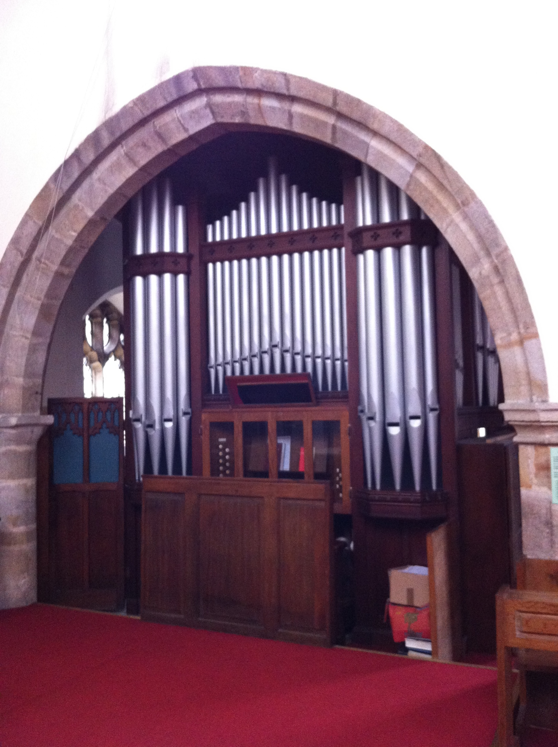 The organ in St. Oswald's Church, Askrigg